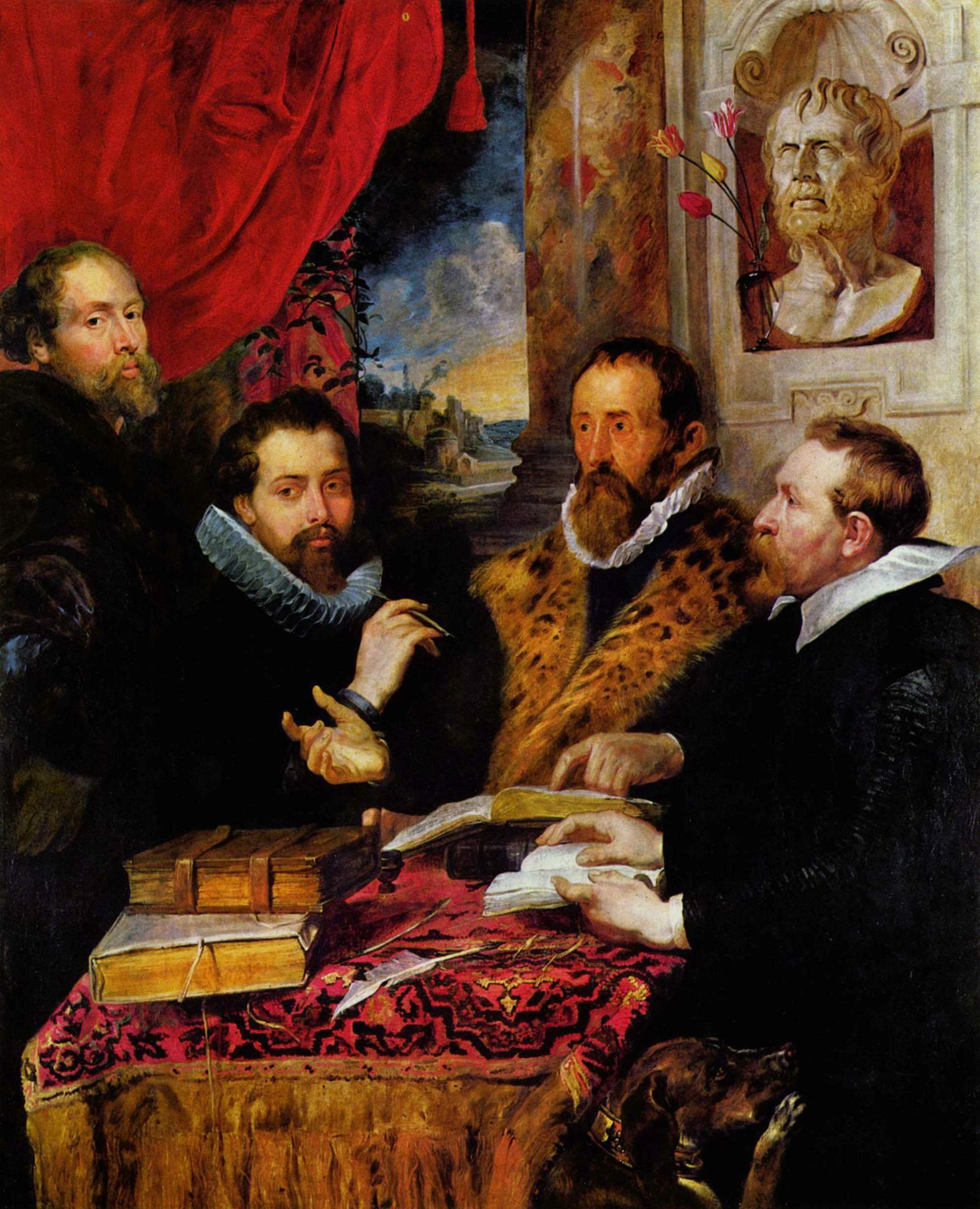 from left to right: Philippus Rubens (the painter's brother), Peter Rubens, Justus Lipsius and Jan van der Wouwere